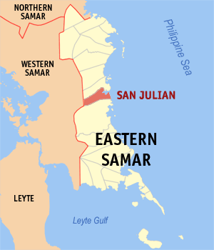 Map of Eastern Samar showing the location of San Julian